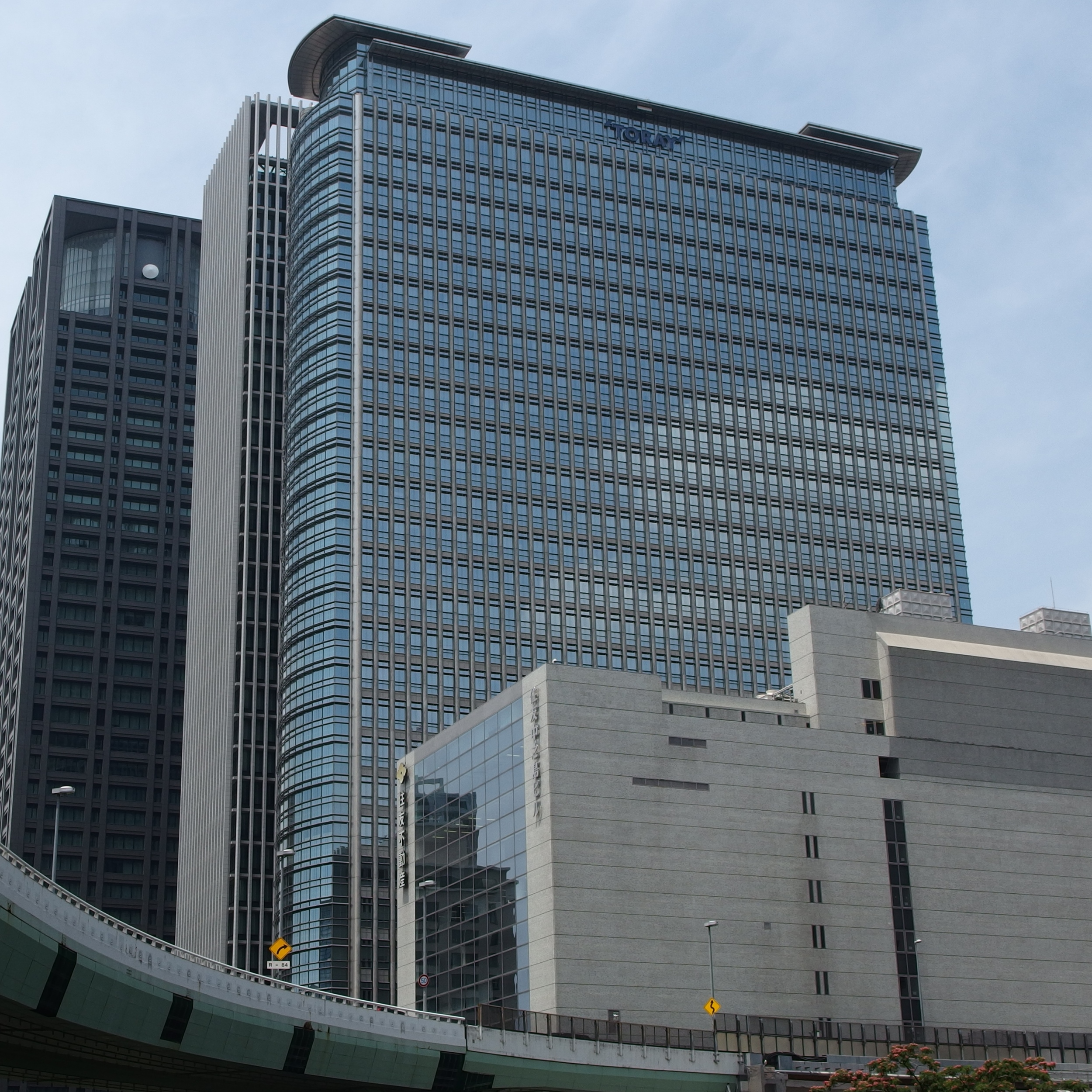 Toray Industries, Osaka, Osaka Prefecture, Japan